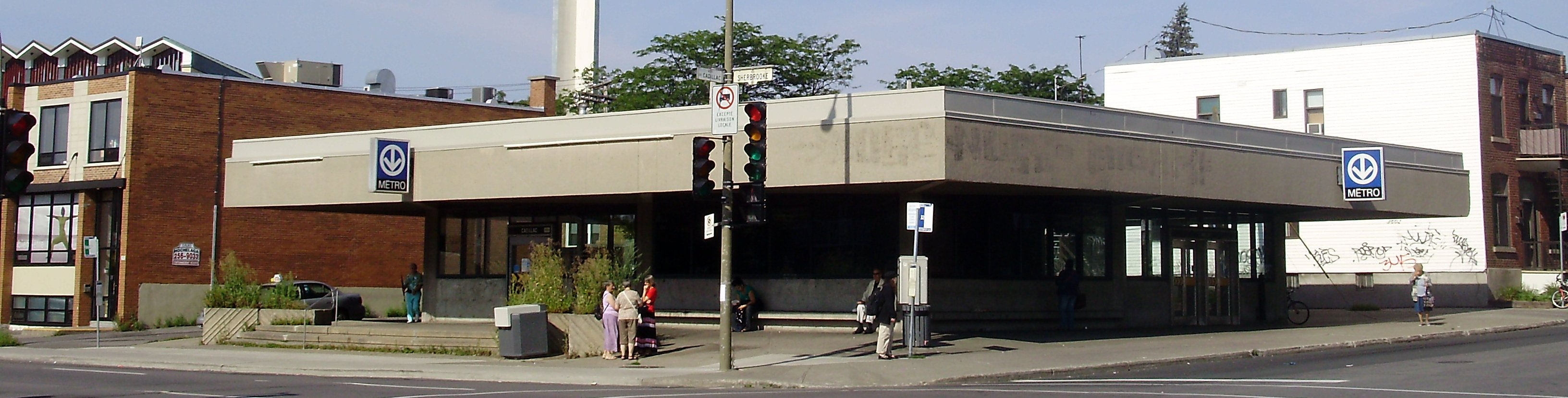 The Société de transport de Montréal's Cadillac metro station in Montreal, Quebec, Canada.